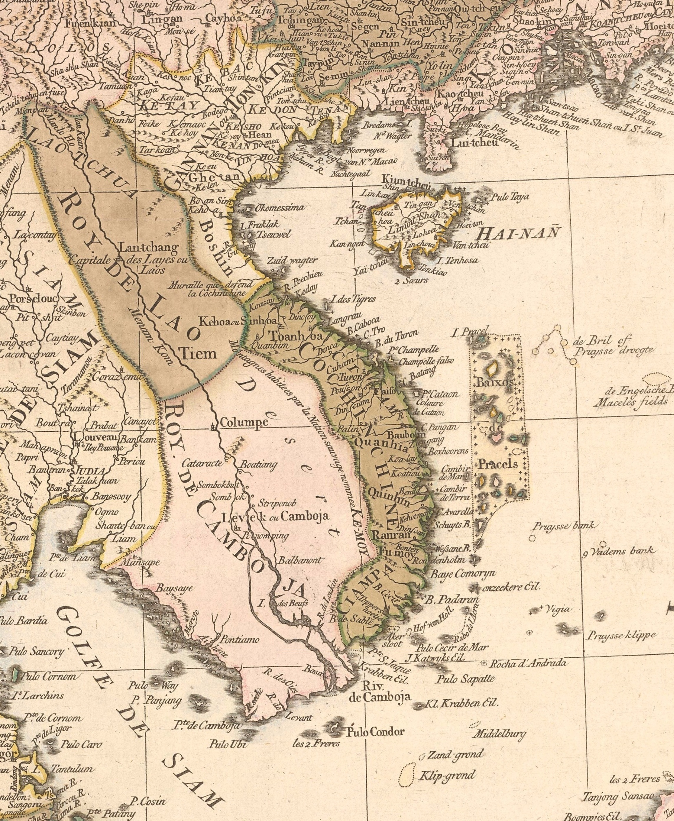 This 18th-century map of Vietnam, derives from a map of southeast Asia and parts of China published in Amsterdam by the firm of Covens and Mortier around 1760. The title of this map is in French, but many of the place names and notes have been translated into Dutch.